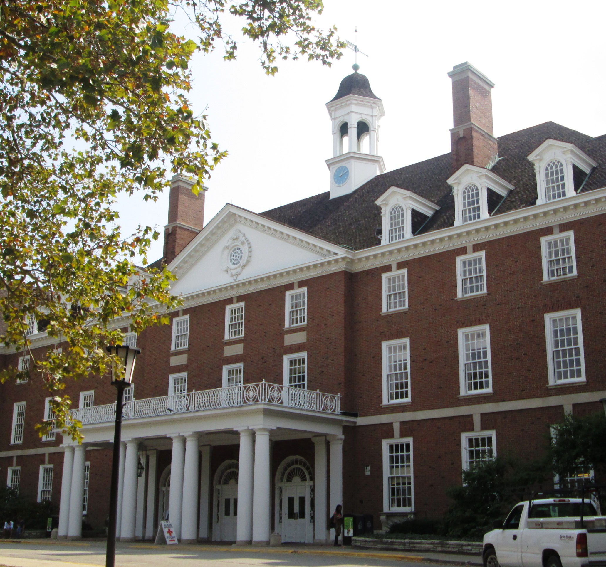 The Illini Union at 1401 West Green Street in Urbana, Illinois, on the campus of the University Of Illinois at Urbana-Champaign, was built in 1941. It is the student union for the University, and contains offices, a bookstore and other retail shops, restaurants, recreational facilities and a hotel.